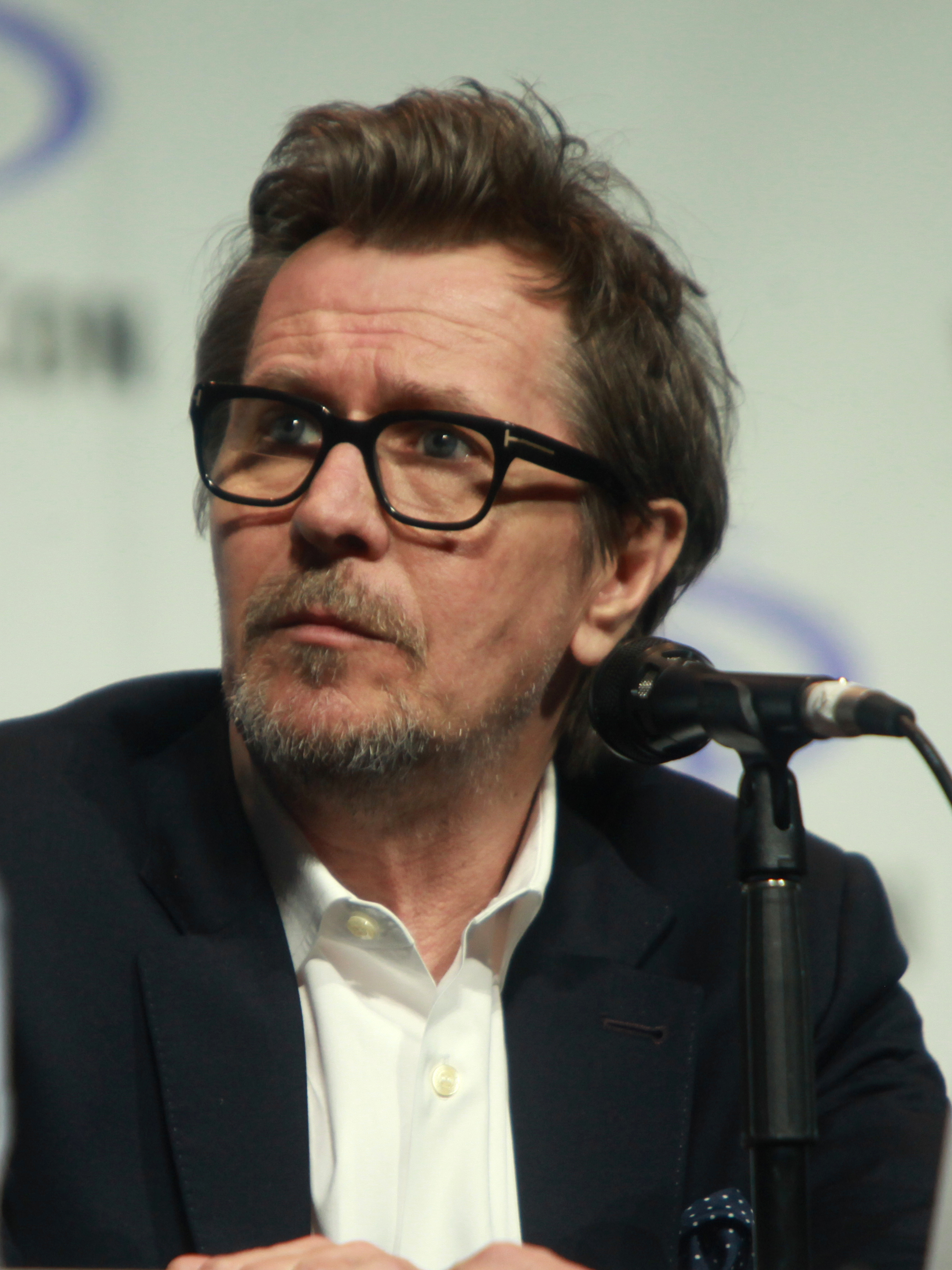 Gary Oldman speaking at the 2014 WonderCon, for "Dawn of the Planet of the Apes", at the Anaheim Convention Center in Anaheim, California.